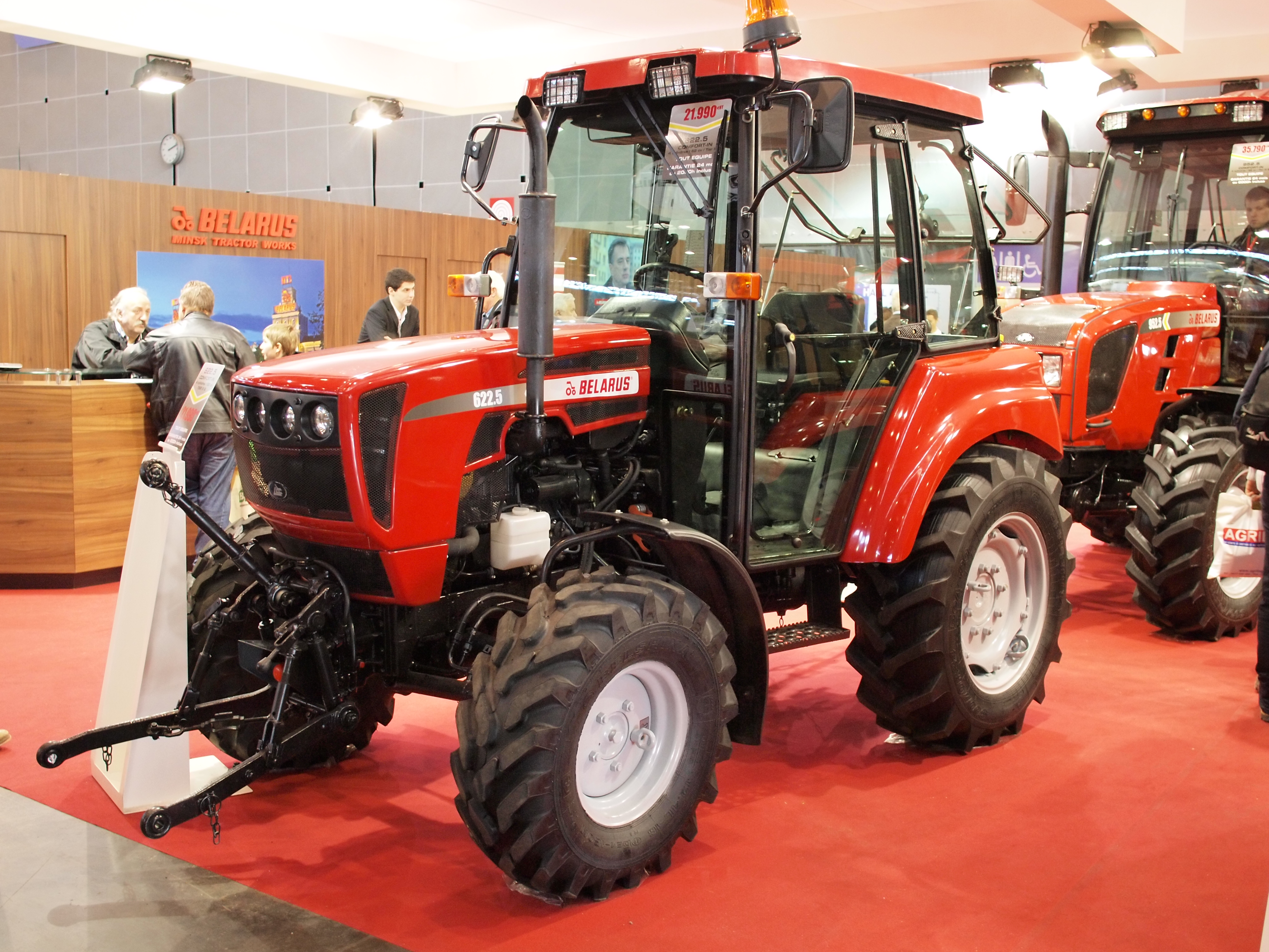 Belarus 622.5 tractor at SIMA 2015.